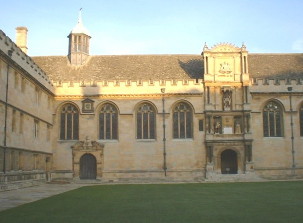 Picture of the front quad of Wadham College Oxford taken by me in December 2001 and hereby released into the public domain